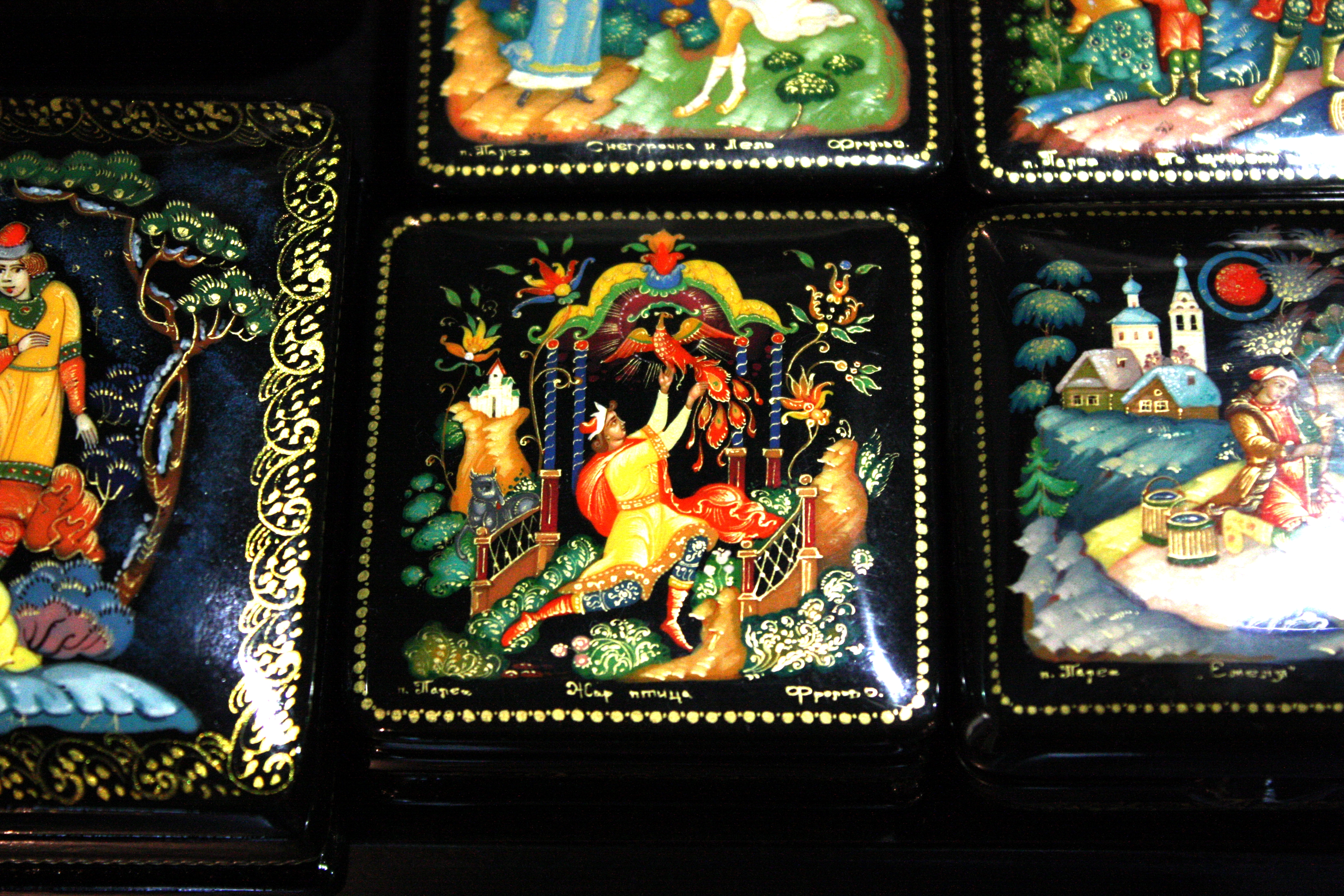 Russian lacquer art, russische Lackminiaturen, St. Petersburg, 2009, magazin Berjoska, for foreign tourists